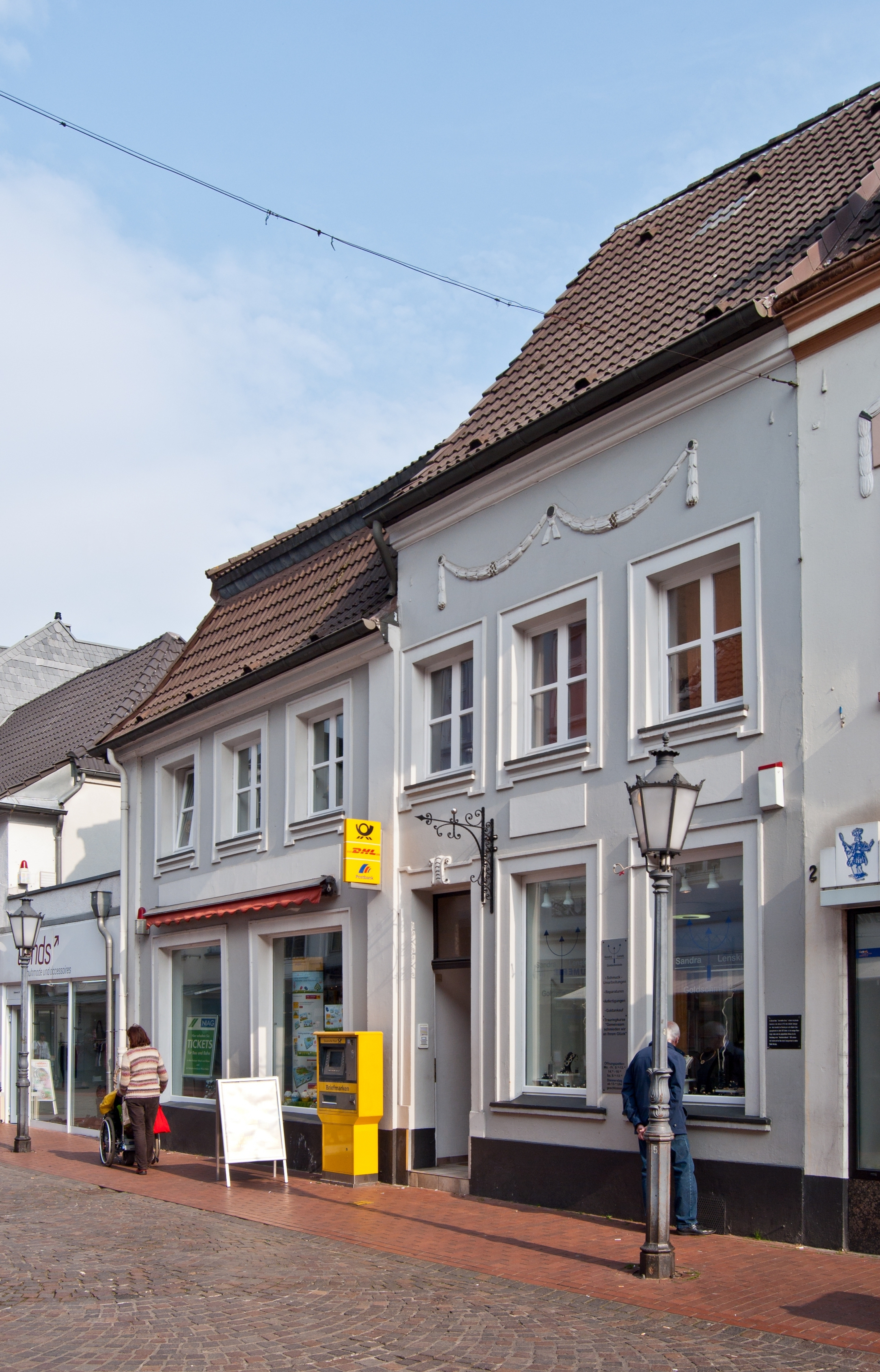 Rheinberg (North Rhine-Westphalia, Germany) – residental building; former municipal synagogue (1764–1897 in the left house half) This image shows a heritage building in Germany, located in the North Rhine-Westphalian city Rheinberg (no. 93). This photograph was taken with a Nikon D3000.